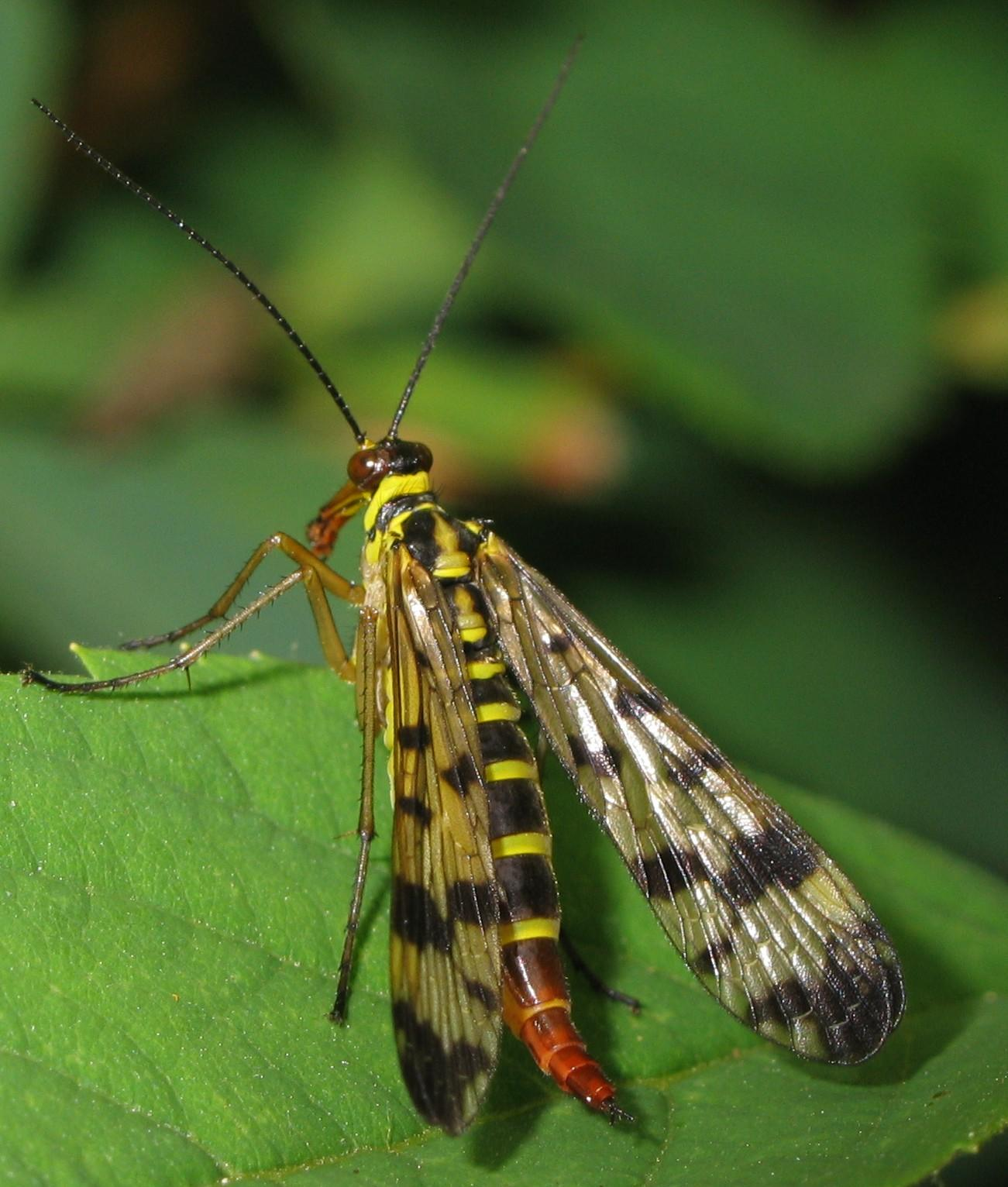 Author: soebe Date: July 15, 2005 Location: Eckernförde, Northern Germany